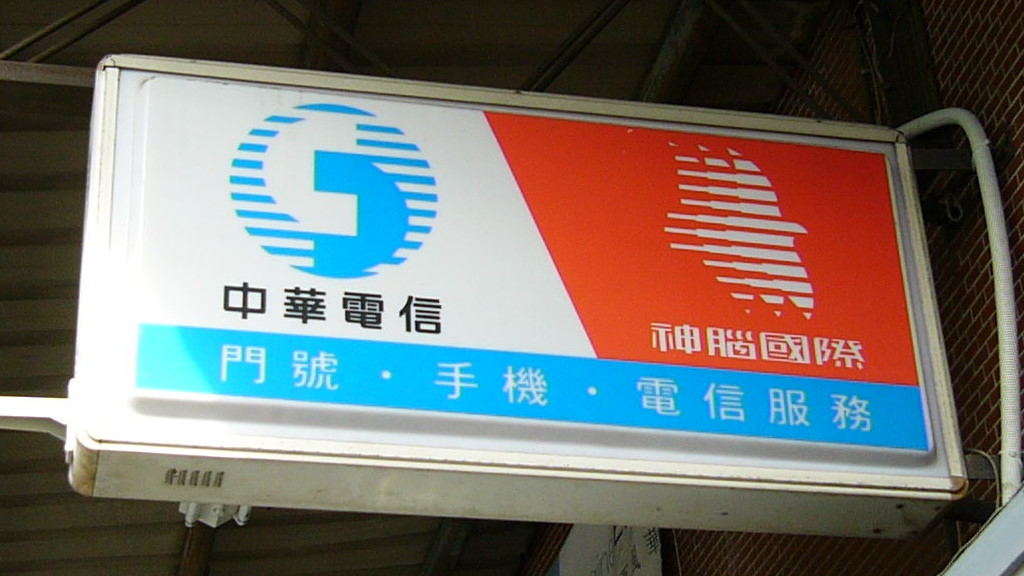 The light box of Chunghwa Telecom and Senao International authorized dealer.